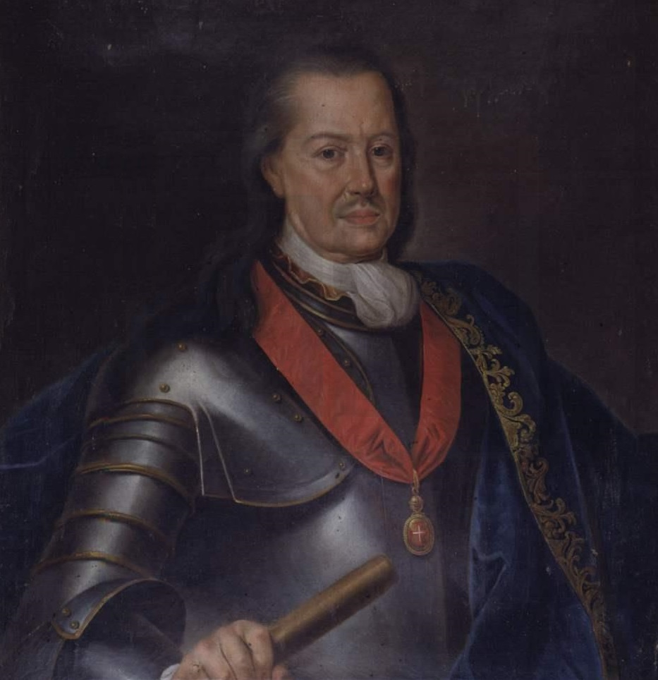 Retrato arquivo do Torre do Tombo